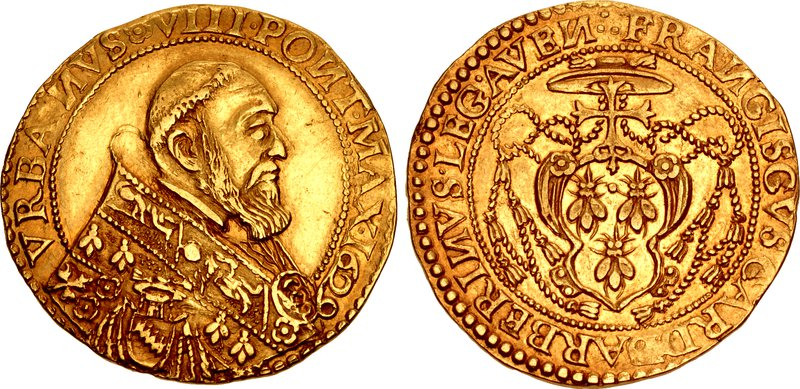 ITALY, Papale (Stato pontificio). Urban VIII. 1623-1644. AV Quadrupla (30mm, 13.01 g, 8h). Avignon mint. Dated 1629. Bust right, wearing mantum; below, coat-of-arms surmounted by gallero with tassels / Coat-of-arms surmounted by cross fourchée and gallero with tassels. Muntoni 199; Berman 1782; Duplessy, Féodales 1974; Poey d’Avant –; Friedberg 59. Good VF, toned, lustrous. Very rare.